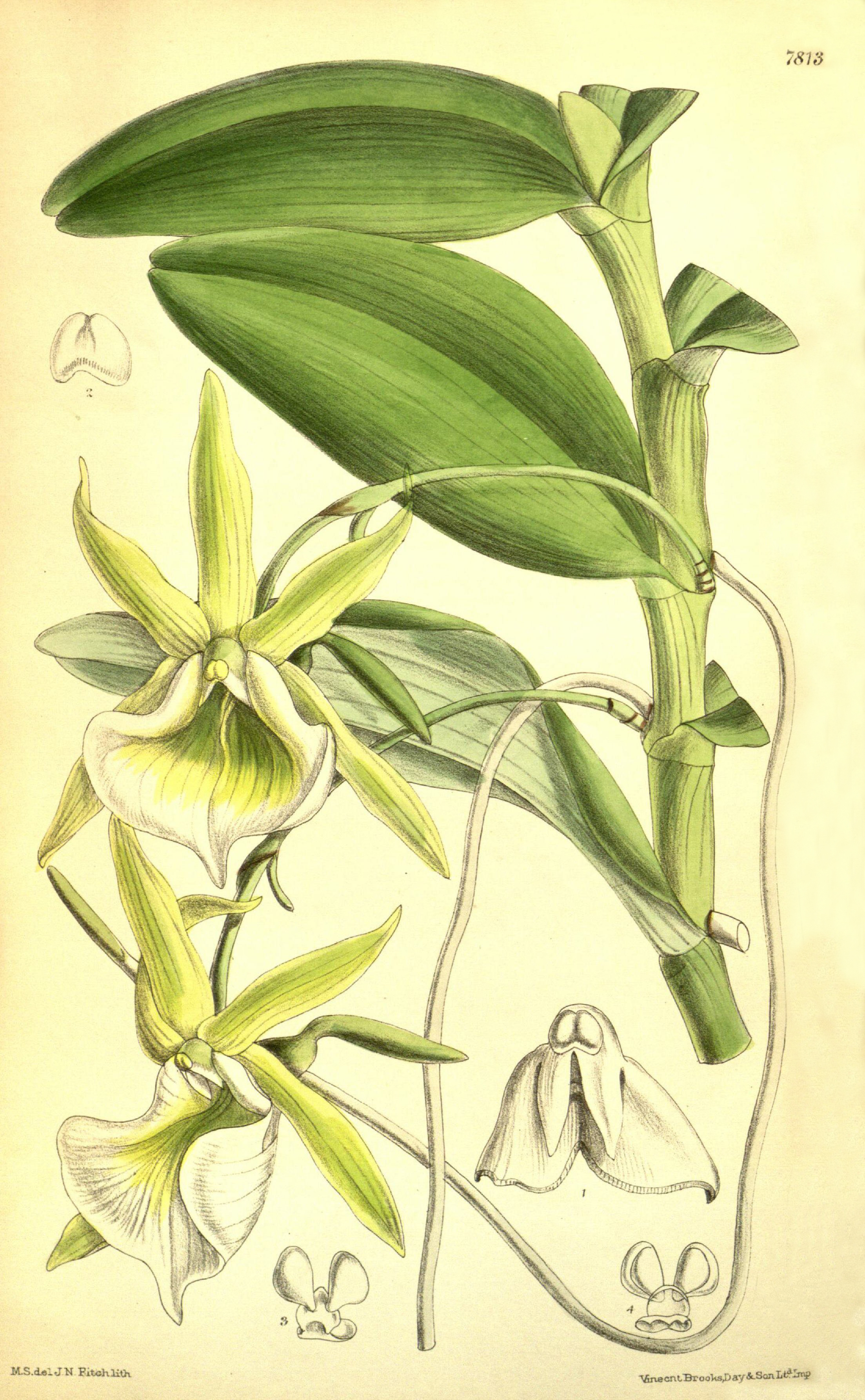 Illustration of Angraecum eichlerianum